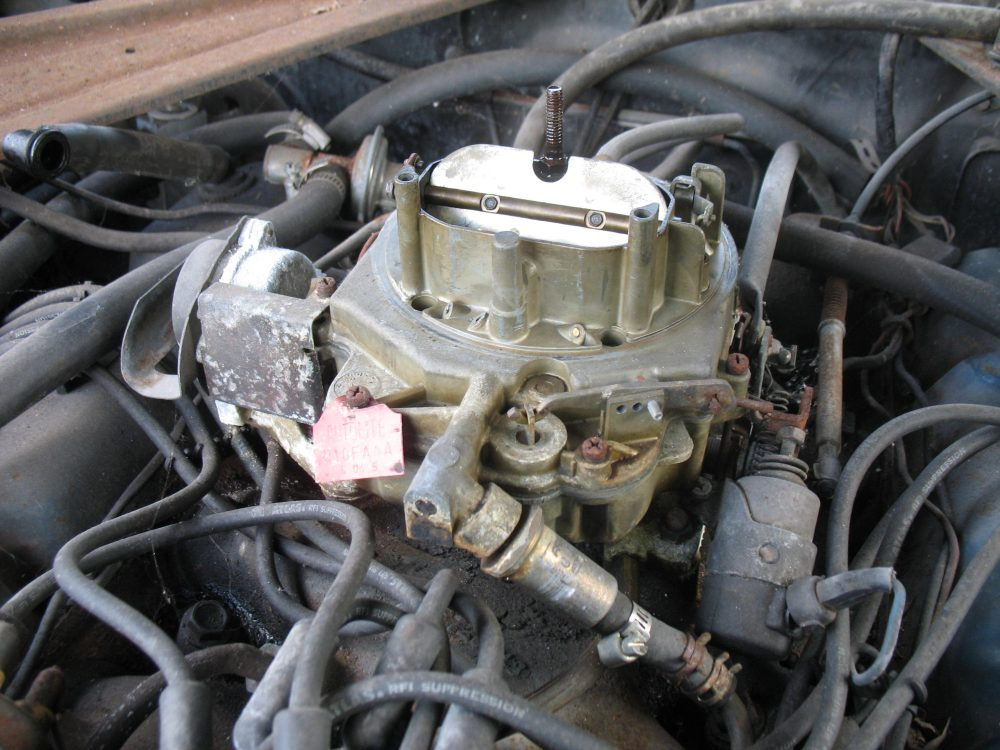 Original example of Autolite/Motorcraft 4300A carburator with 1971 date code.